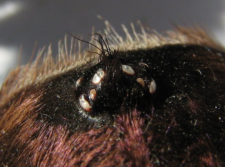 The eye region of the Costa Rican Tiger Rump (Davus fasciatus)